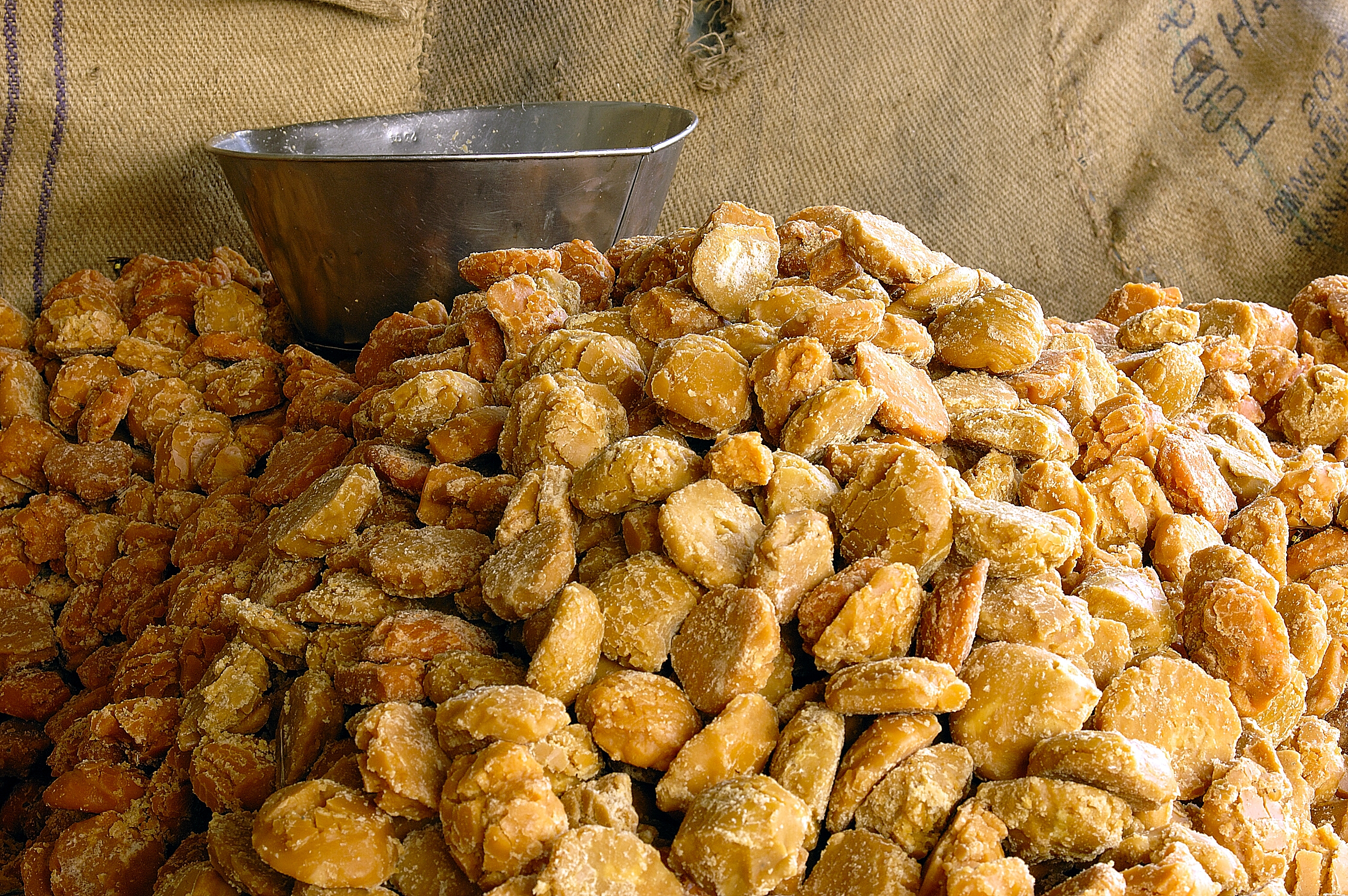 Gud or Jaggery: Sugar cane derived raw sugar crystallized cubes or blocks India